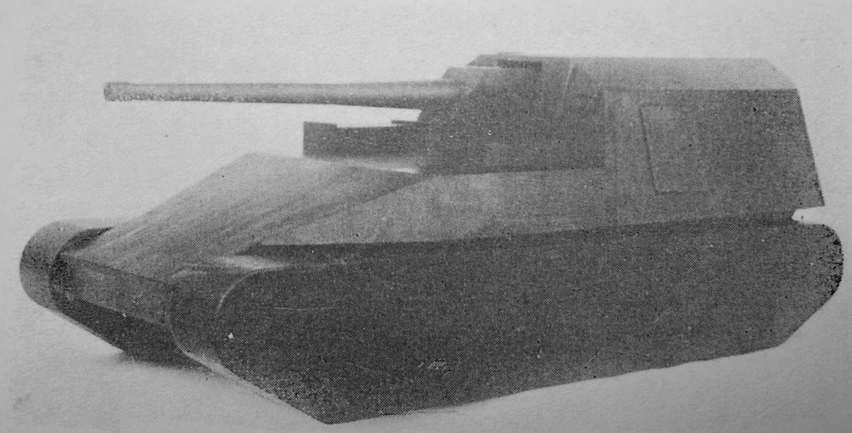 Imperial Japanese Army Experimental Type 5 gun tank Ho-Ri I, mock-up scale model.